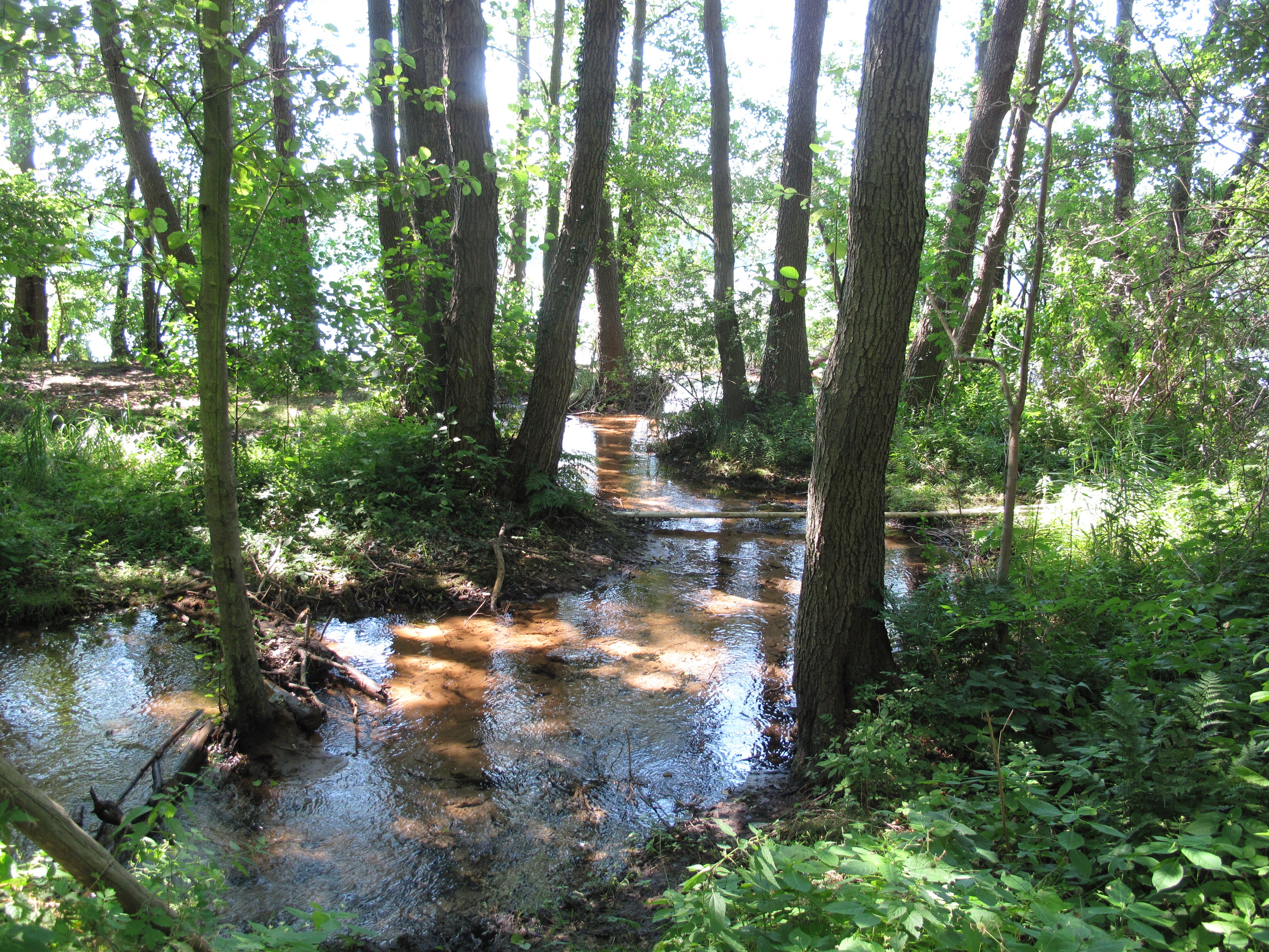 „Große Springseequelle“ (spring). The little stream flows at the eastern shore into the Springsee and is designated as a natural monument together with the nearby „Kleinen Springseequelle“. The Springsee is a lake in Limsdorf, which is a part of the town Storkow, District Oder-Spree, Brandenburg, Germany. The lake covers about 57 hectare and has a depth of max. 20 meters. It is situated in the Dahme-Heideseen Nature Park.